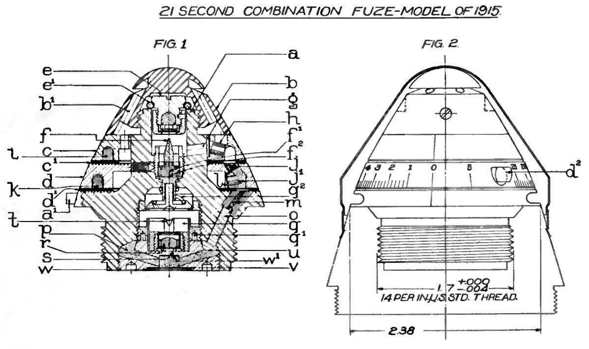 Diagram of US 21 second Combination Fuze Model 1915 for 2.95 inch Mountain Gun, US Army service. a : Body, steel a' : Stop pin, brass b : Closing cap, steel b' : Vents in closing cap c : Upper time train ring, Tobin bronze c' : Washer for time train ring, graduated, felt cloth d : Time train ring graduated, Tobin bronze d' : Washer for body, felt cloth d2 : Rotating pin, brass e : Concussion plunger e' : Concussion resistance rung, brass f : Concussion firing pin, brass f' : Safety pellet, compressed powder f2 : Safety cap, brass g : Vent leading to upper time train h : Compressed powder pellet i : Upper time train ring, compressed powder j : Compressed powder pellet in vent leading to lower time train j' : Compressed powder pellet in lower time-train vent k : Lower time train, compressed powder l : Brass disk, locked in place m : Compressed powder pellet in vent o o : Vent leading to magazine p : powder magazine q' : Percussion plunger sleeve, brass q2 : Restraing spring, brass r : Percussion primer s : Vent leading from percussion primer to magazine t : Percussion firing pin, German silver u : Bottom closing screw, brass v : Washer for closing screw, muslin w : Washer for closing screw, brass w' : Bottom closing screw disk, paper